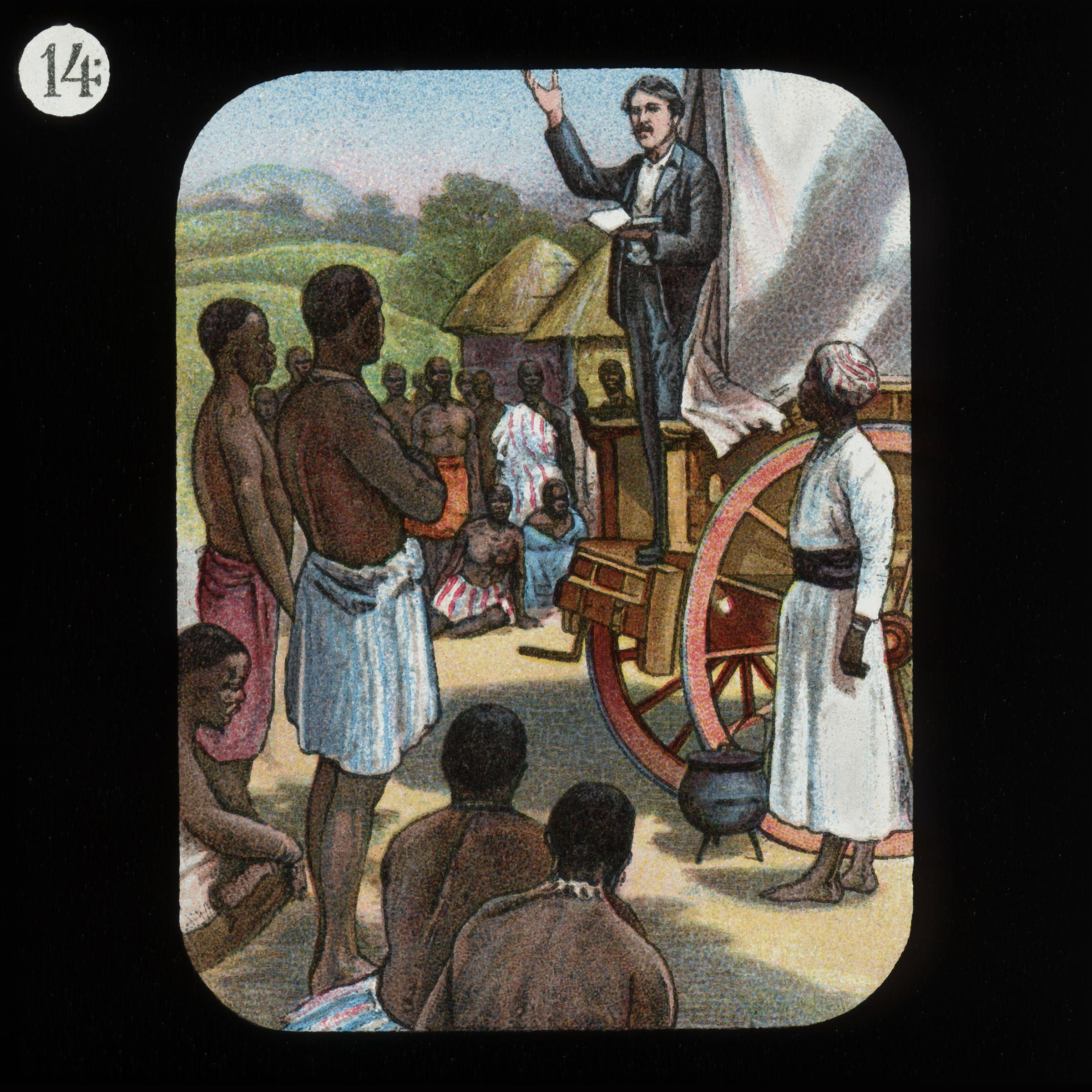 All images in this batch have been evaluated manually for evidence that the artist probably died before 1939, or that the work is anonymous or pseudonymous and was probably published before 1923. Pseudonymous, circa 1900. This image (or other media file) is in the public domain because its copyright has expired and its author is anonymous. This applies to the European Union and those countries with a copyright term of 70 years after the work was made available to the public and the author never disclosed their identity. Important: Always mention where the image comes from, as far as possible, and make sure the author never claimed authorship. Note: In Germany and possibly other countries, certain anonymous works published before July 1, 1995 are copyrighted until 70 years after the death of the author. See Übergangsrecht. Please use this template only if the author never claimed authorship or their authorship never became public in any other way. If the work is anonymous or pseudonymous (e.g., published only under a corporate or organization's name), use this template for images published more than 70 years ago. For a work made available to the public in the United Kingdom, please use Template:PD-UK-unknown instead.